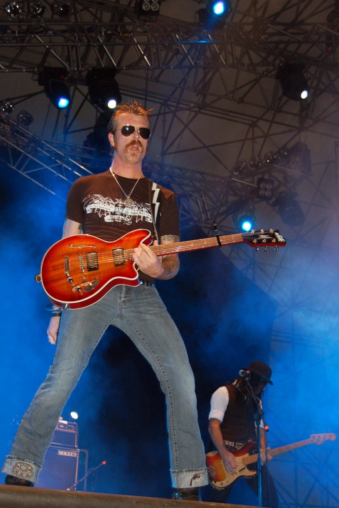 Jesse "The Devil" Hughes